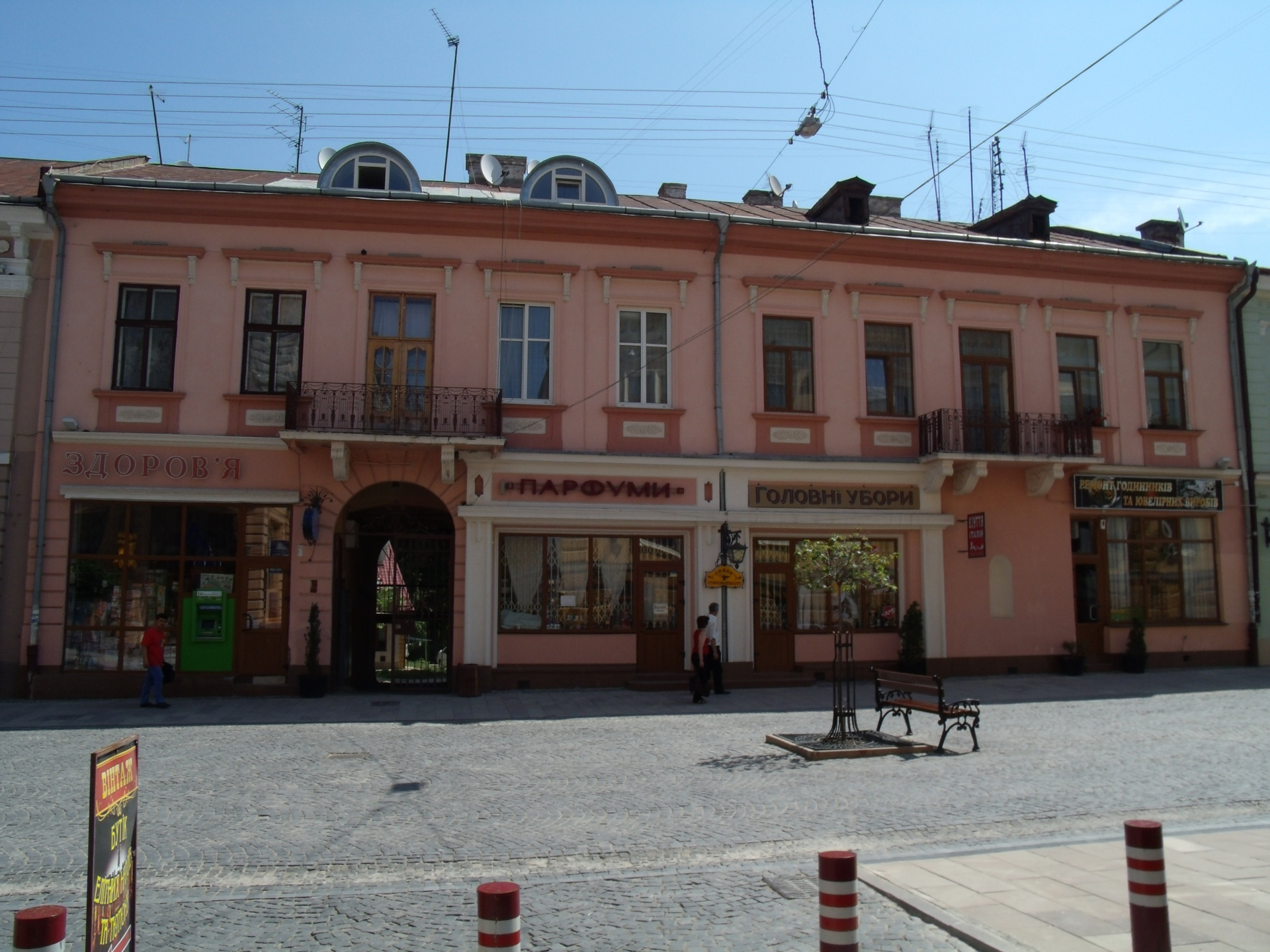 Chernivtsi, Kobylianska house 25